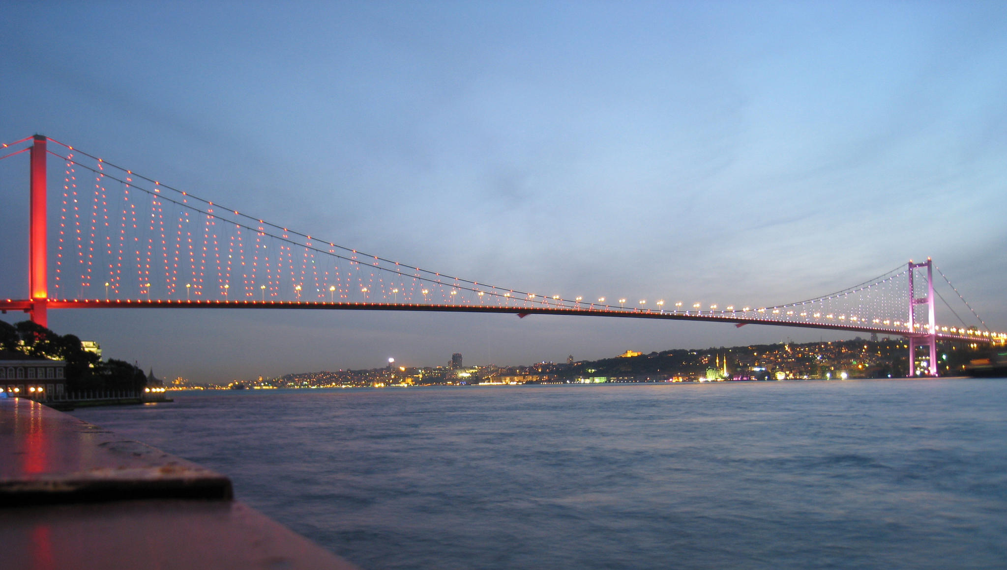 The Bosphorus Bridge after sunset. Istanbul, Turkey